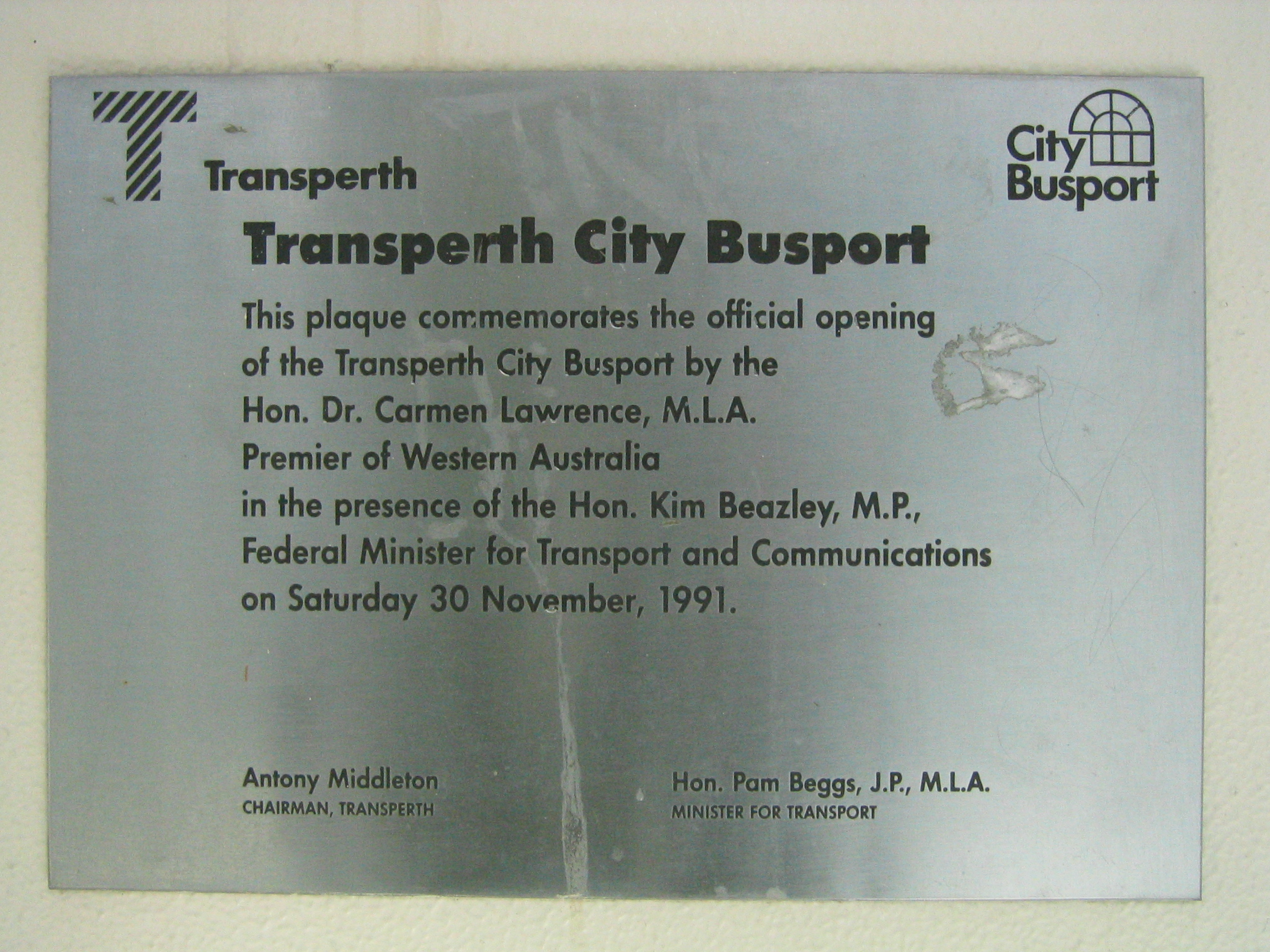 The plaque of the Transperth City Busport (now the Transperth Esplanade Busport)